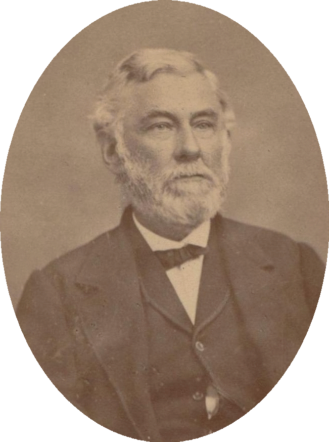 Bust portrait of William Nelson Pendleton. Derived from Carte-de-Visite of a bust portrait of Brigadier General William Nelson Pendleton. Inscription on front: Gen. Pendleton C. S. A. Inscription on back: Wm Nelson Pendleton Ga Lf. 19; Genl Pendleton. From the Collections of the Confederate Memorial Literary Society